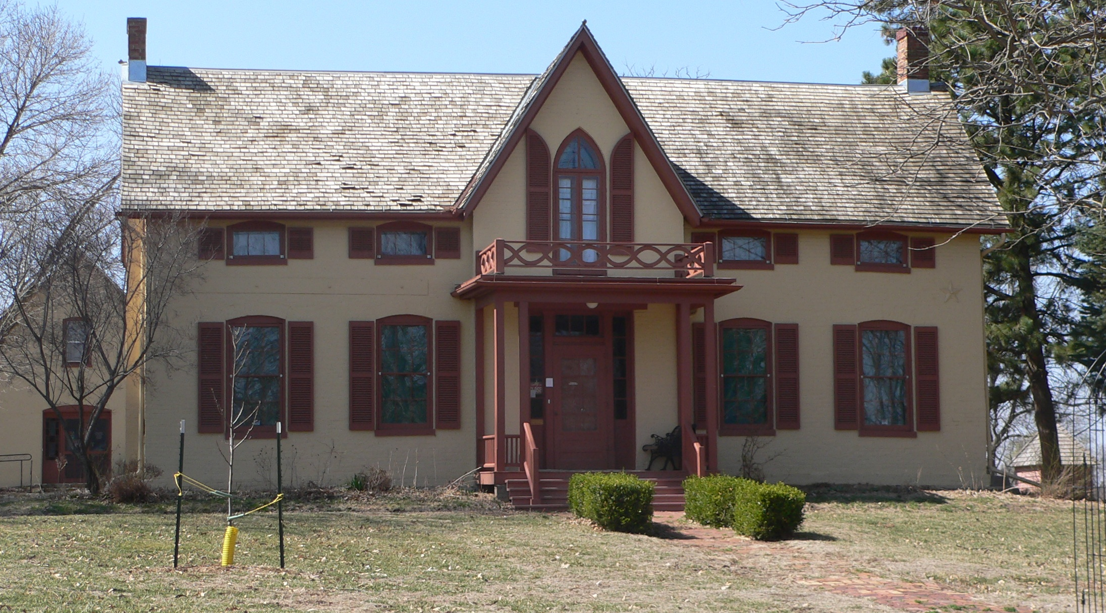 Wildwood Historic Center, occupying the Jasper A. Ware House, located at 420 Steinhart Park Road in Nebraska City, Nebraska; seen from the east.